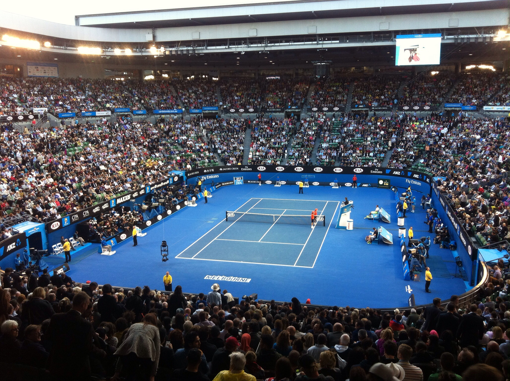 View of the interior of Rod Laver Arena at the 2015 Australian Open tennis tournament